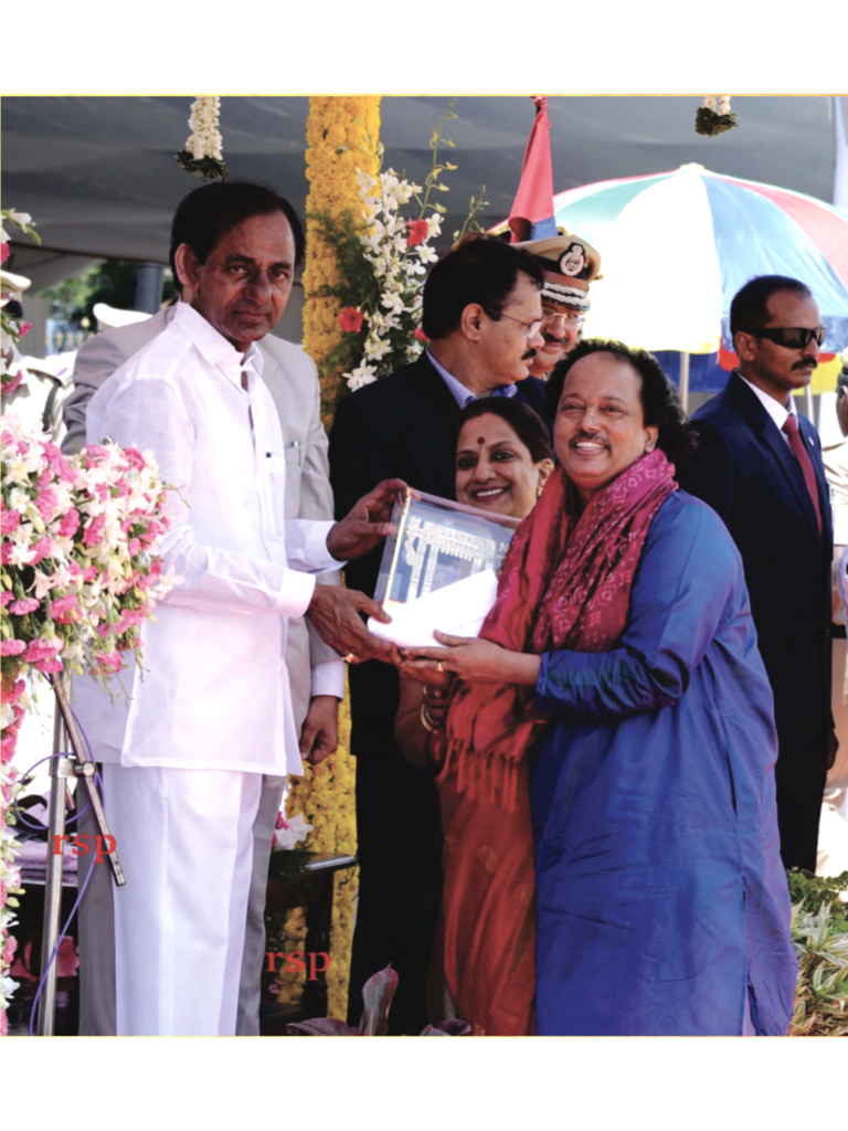 Mangala & Raghav Raj Bhatt receiving the State Award from Chief Minister of Telangana Shri K Chandrasekhar Rao